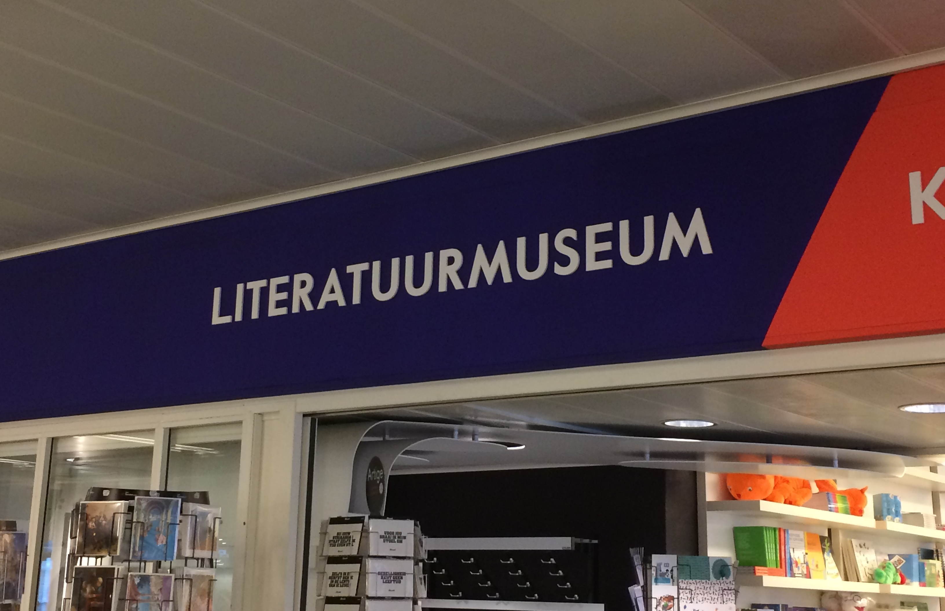 Entrance Dutch Literature Museum "Literatuurmuseum" (The Hague, the Netherlands)